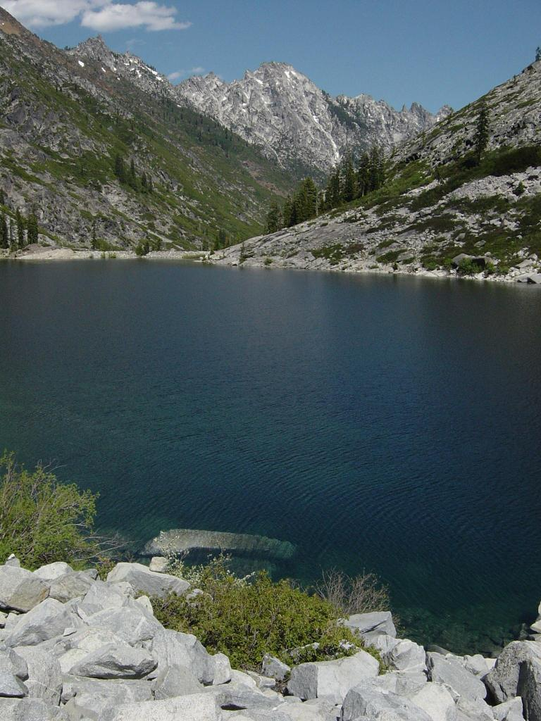 Mountain lake in the Trinity Alps Wilderness_Land_Trust.